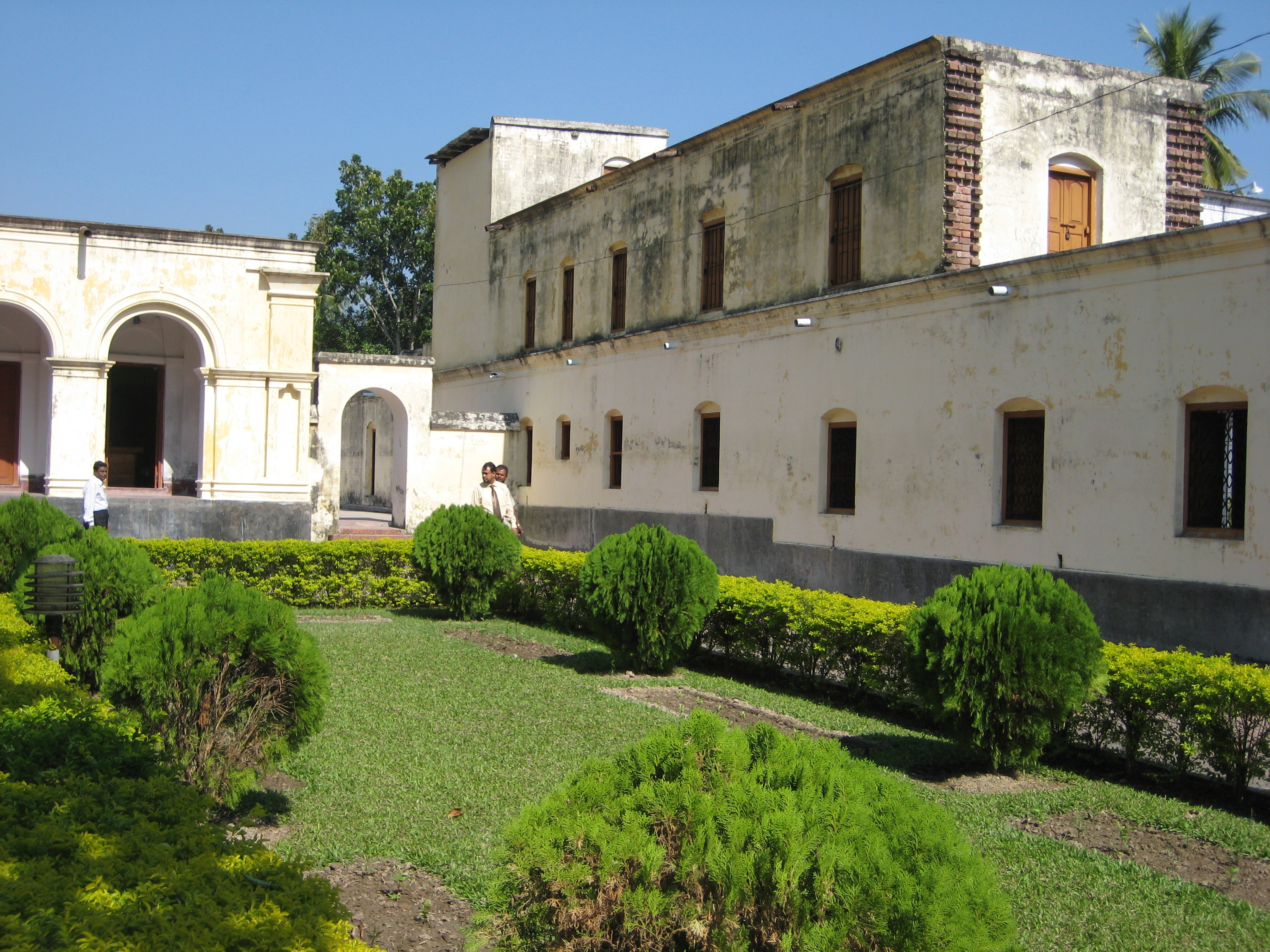 The backyard and the house of Michael Madhusudan Dutt outside of his house at Sagardari village in Jessore. This house is currently being used as a museum.